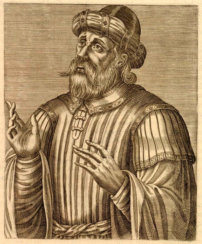 Portrait of Constantine XI Palaeologus, half-length turned to the left, bearded, looking upwards to the left, hands raised, wearing turban; illustration from Thevet's 'Les vrais pourtraits et vies des hommes illustres' (Paris, 1584), page 291. Engraving, letterpress below and on verso